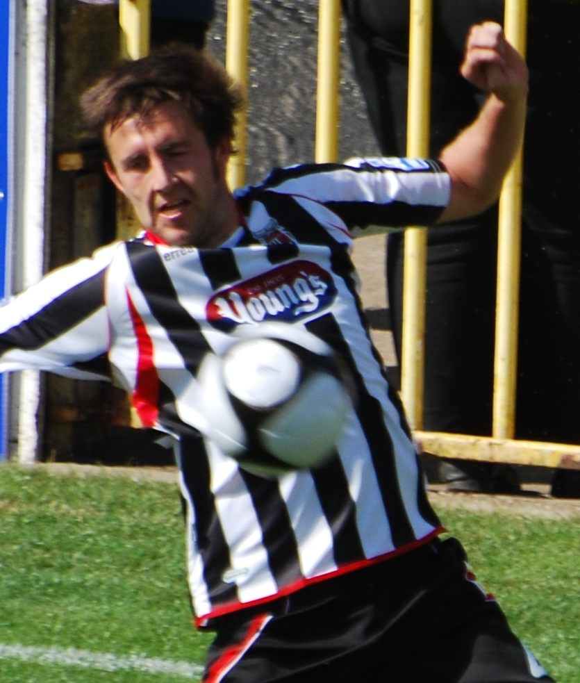 Mark Hudson. Image cropped from original at flickr.